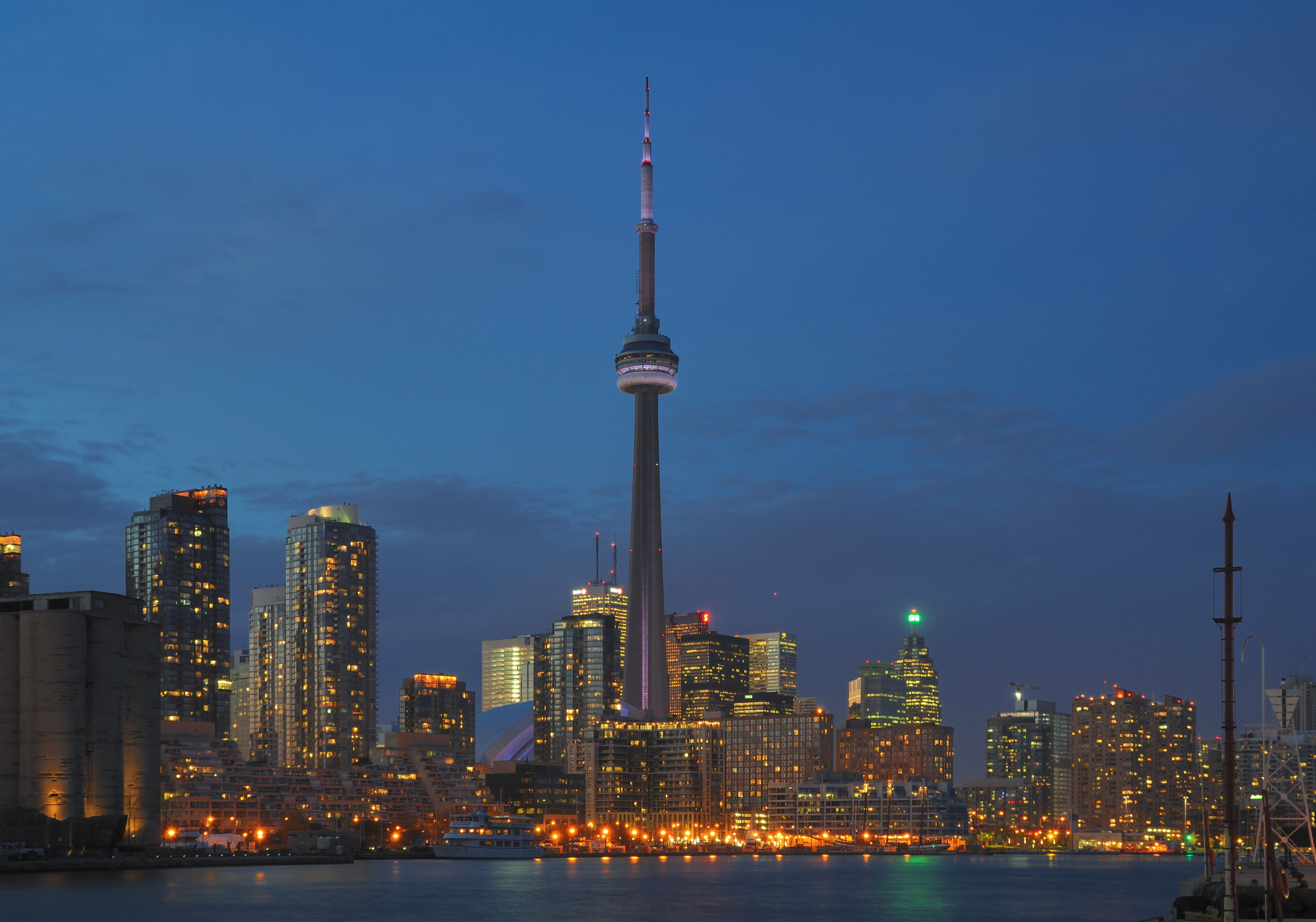 Skyline of Toronto